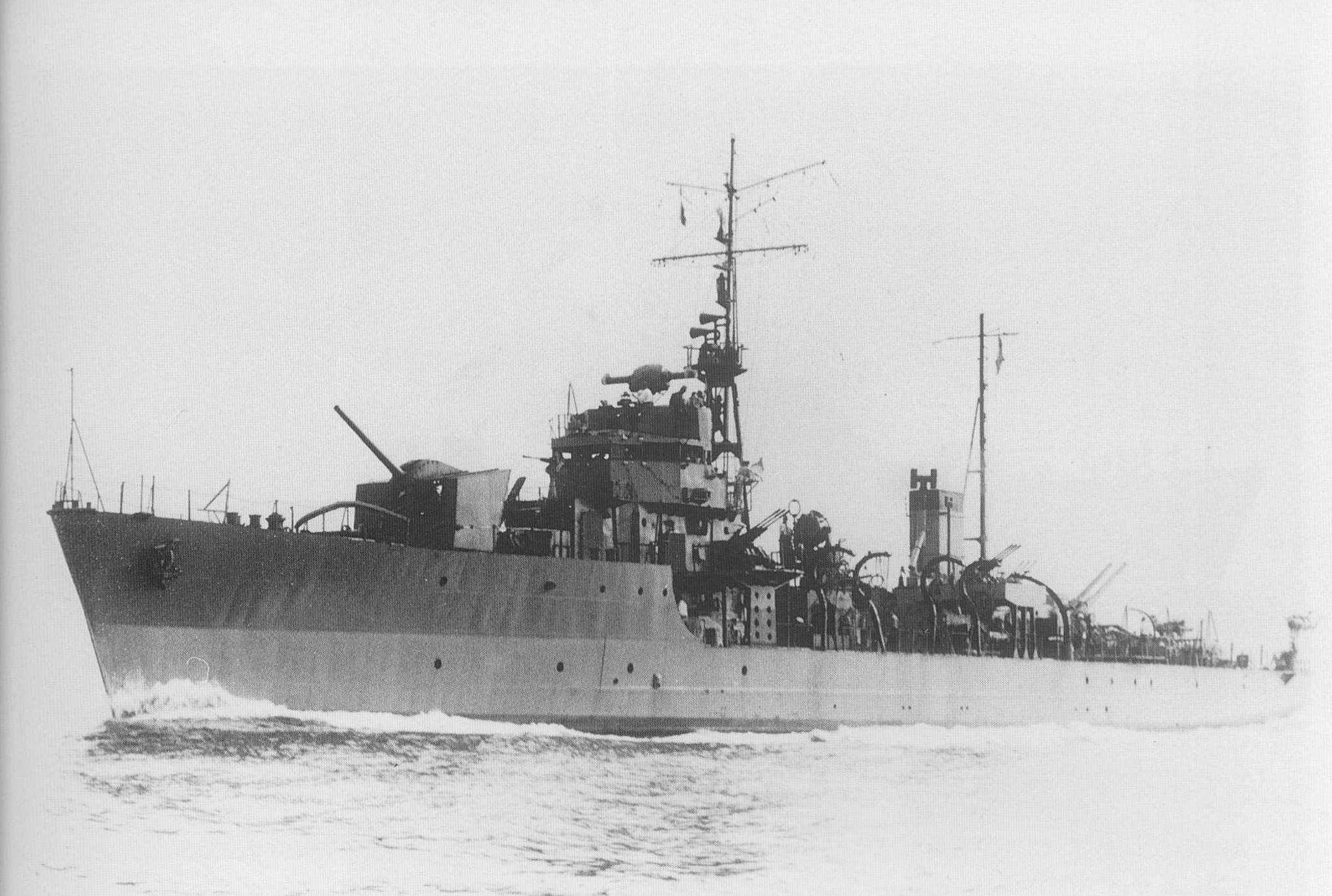 Japanese escort vessel SHONAN, completed at Hitachi Sakurajima-shipyard, Osaka on July 13th, 1944.